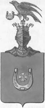 Coat of arms Jastrzębiec from Herbarz rodzin królestwa polskiego najwyżej zatwierdzony by Nikołaj Pawliszczew